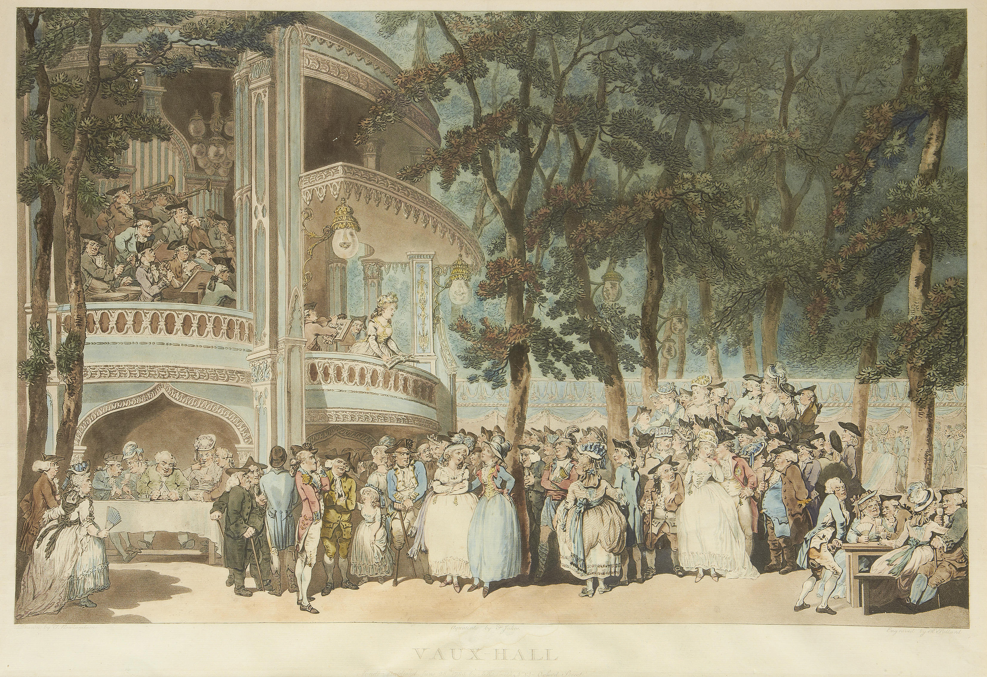 Vauxhall handcoloured etching with aquatint, on laid 47.5 x 74.5 mm 1785